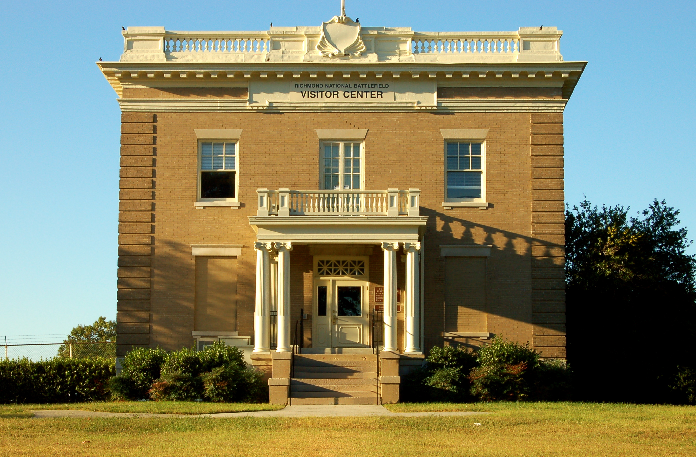 "The National Park Service's Visitors Center on the site of Chimborazo Hospital, a massive Confederate medical facility that treated over 76,000 patients over the course of the Civil War, with a then-exceptional mortality rate of only around 20%. Church Hill; Richmond VA" - original caption at Flickr